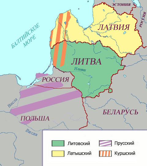 Distribution of the Baltic languages